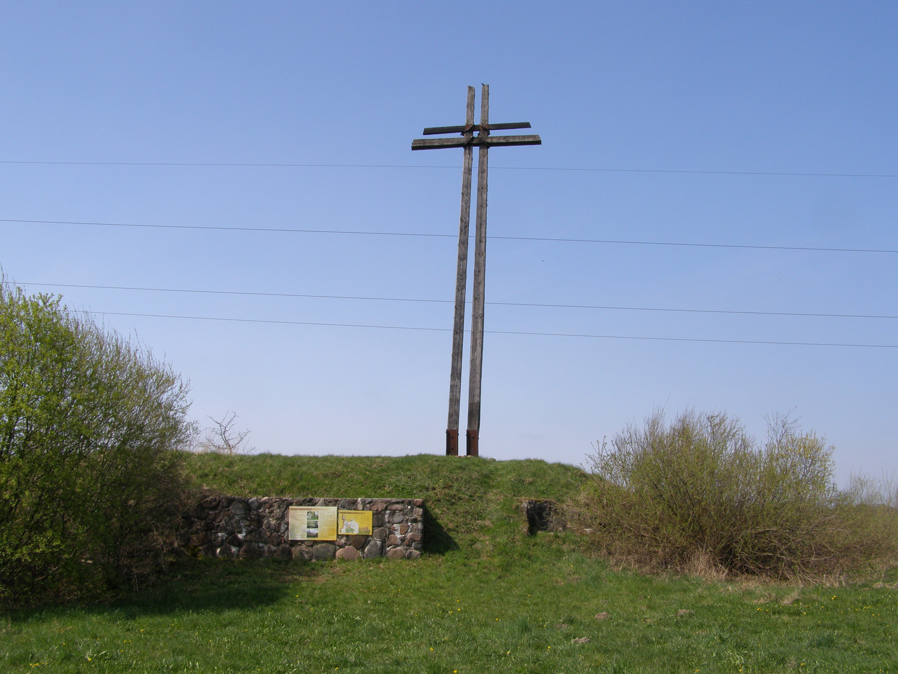 Senoji Įpiltis, Kretinga district, Lithuania